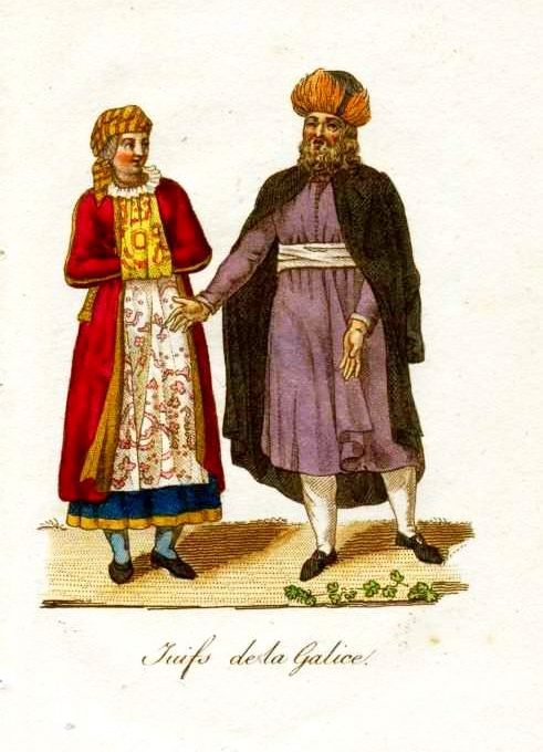 Jews of Galicia (western Ukraine) in traditional dress, posctcard of 1821.